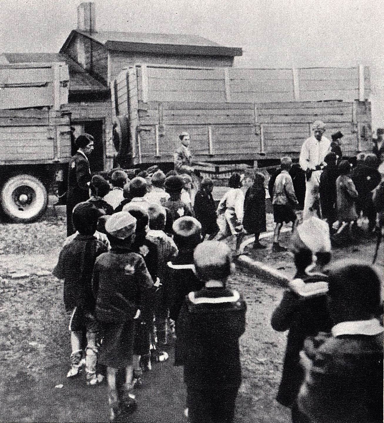 Litzmannstadt Ghetto. Deportation of Jewish children from the orphanage in Marysin to Kulmhof extermination camp